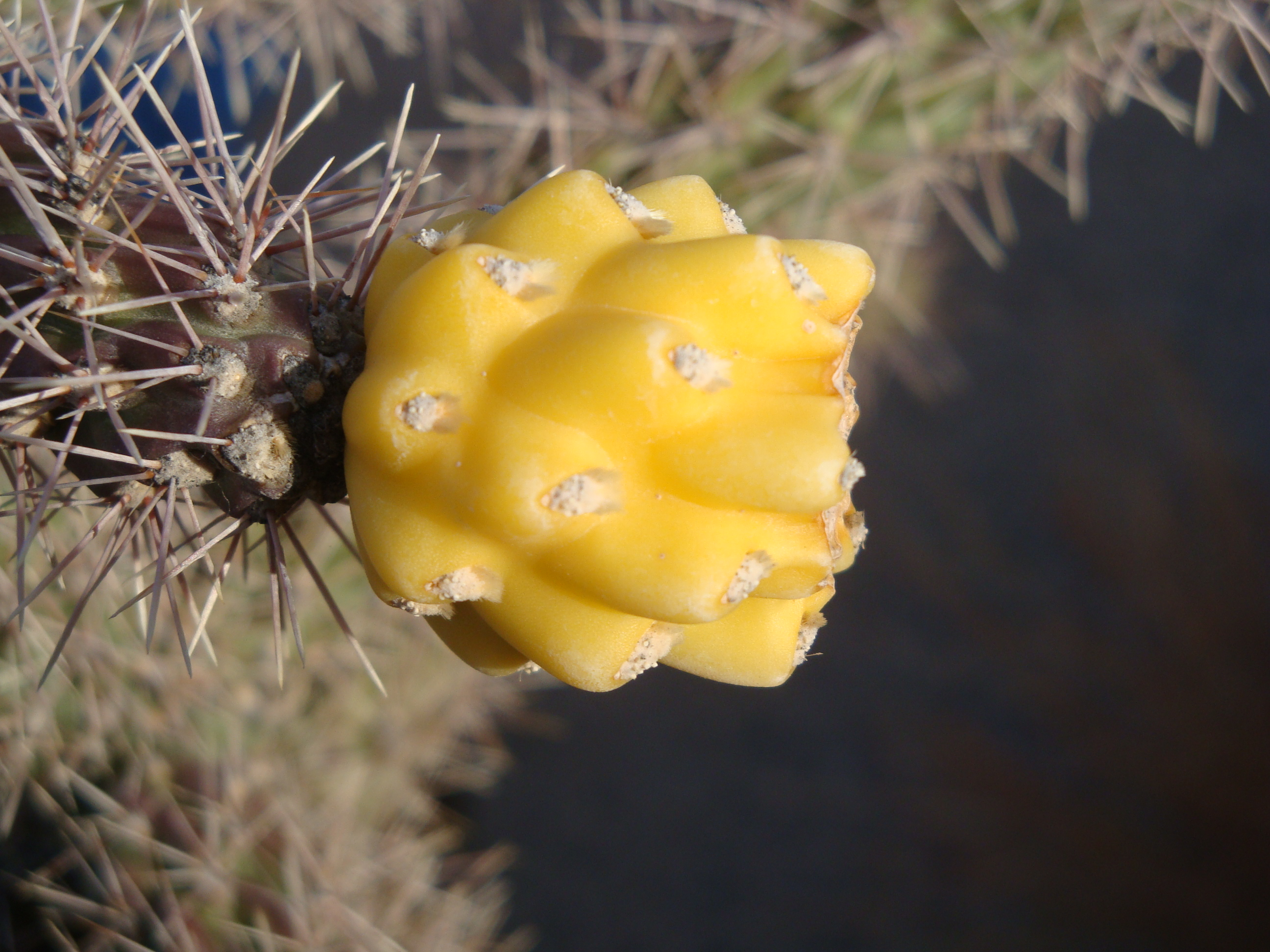 Mature fruit of Cane Cholla, Cylindropuntia spinosior, taken at the Arizona-Sonora Desert Museum, Tucson, Arizona